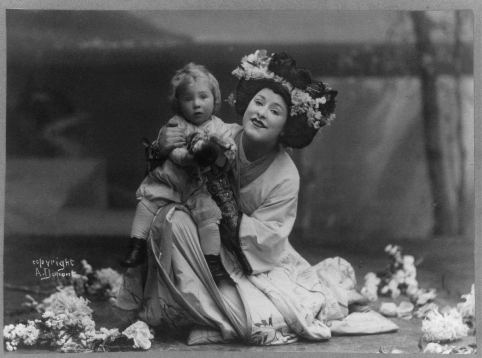 Geraldine Farrar, 1882-1967, full length, kneeling child on knee, facing slightly left, in Madame Butterfly.